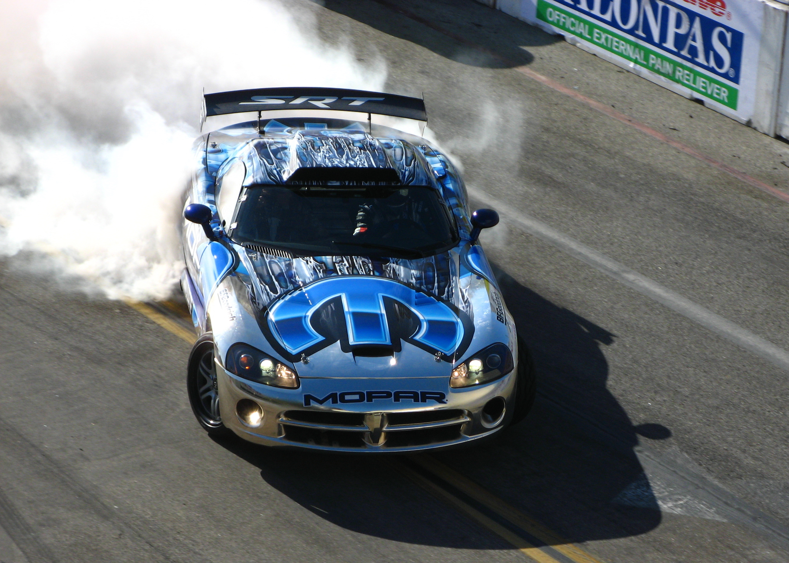 A Formula Drift competitor getting sideways at the 2008 Gran Prix of Long Beach.